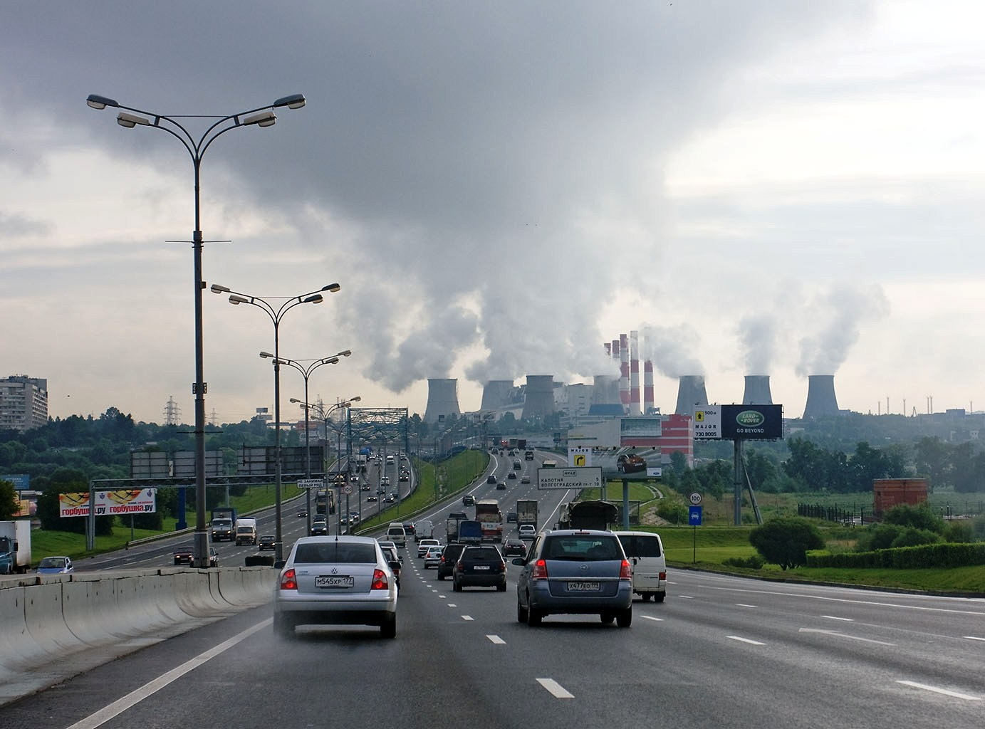 MKAD in Moscow, Russia.